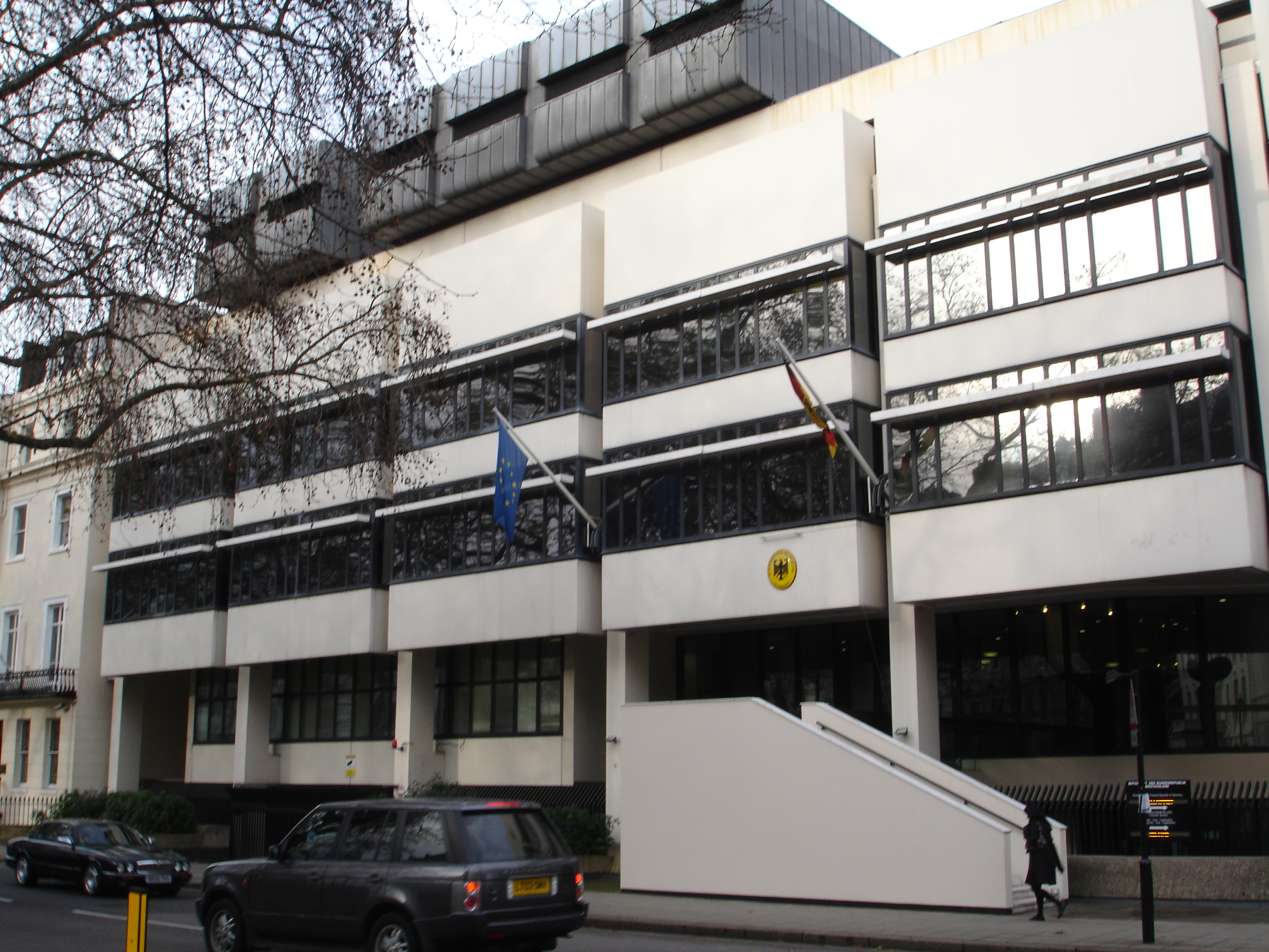 German Embassy in London, GB